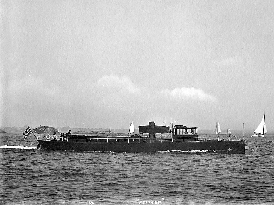 Steam yacht Feiseen, built in 1893 by Benjamin Franklin "B.F." Wood from the designs of William Gardner and Charles Dell Mosher at City Island, NY for owner William B. Cogswell of Saracuse, NY. It was completely planked in mahogany with 30,000 wooden rivets in her frame and housed a single 600-hp steam engine. Feiseen was commissioned by Cogswell to beat the yachts Norwood and Vamoose and set a new world speed record. On August 25, 1893, she set a new world speed record at 31.6 mph. A few months later she was sold and rebuilt for the Brazilian Navy, adding an armored deckhouse and deck-mounted guns.[1] ↑ International Yacht Restoration School (2006). Yachts Built by Wood. Retrieved on 2008-09-01.